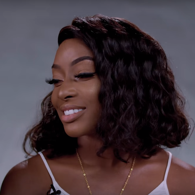 2018 NdaniTV Dorcas Shola Fapson,on Thank God Its Friday